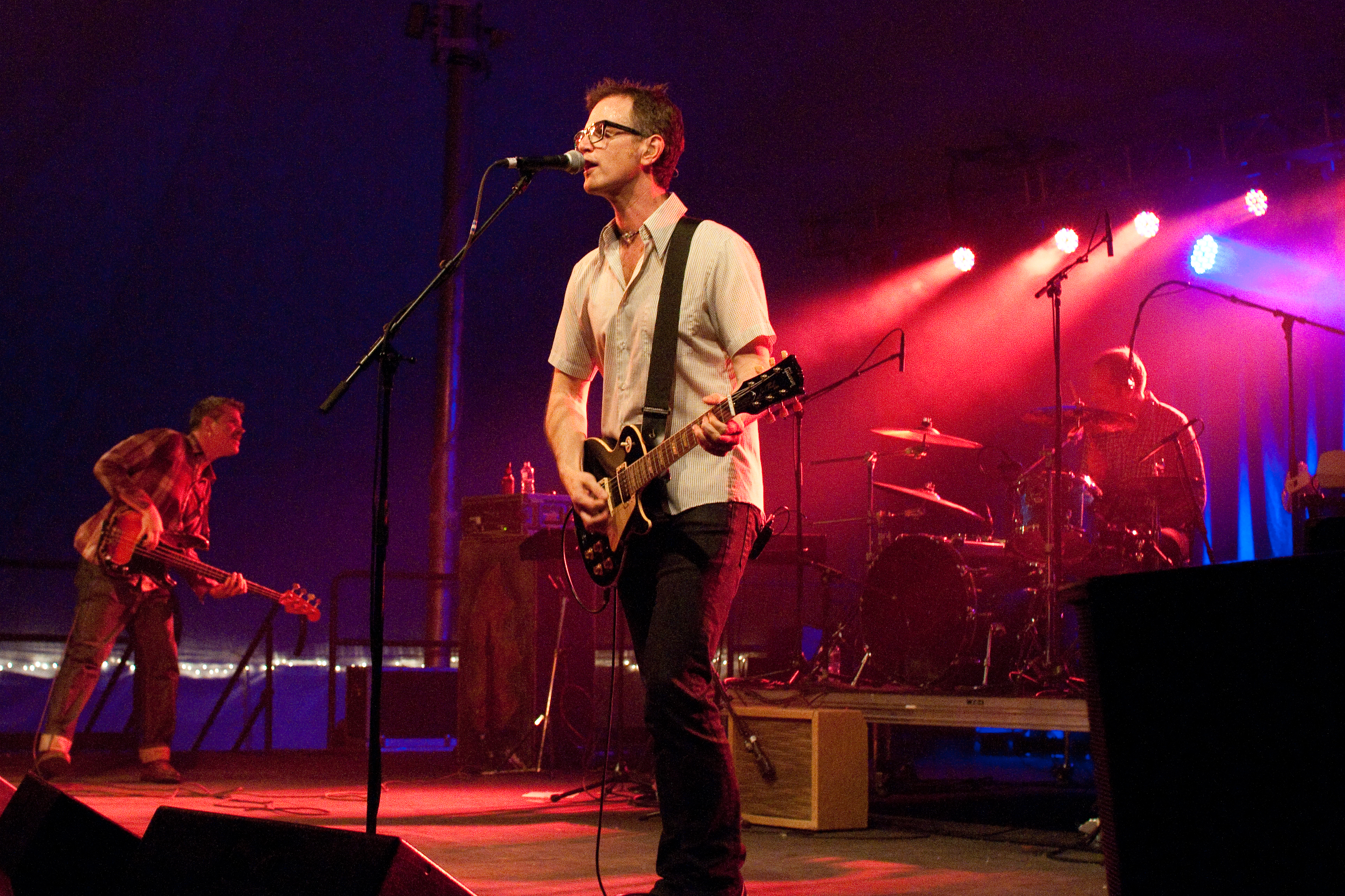 Semisonic at the MN State Fair